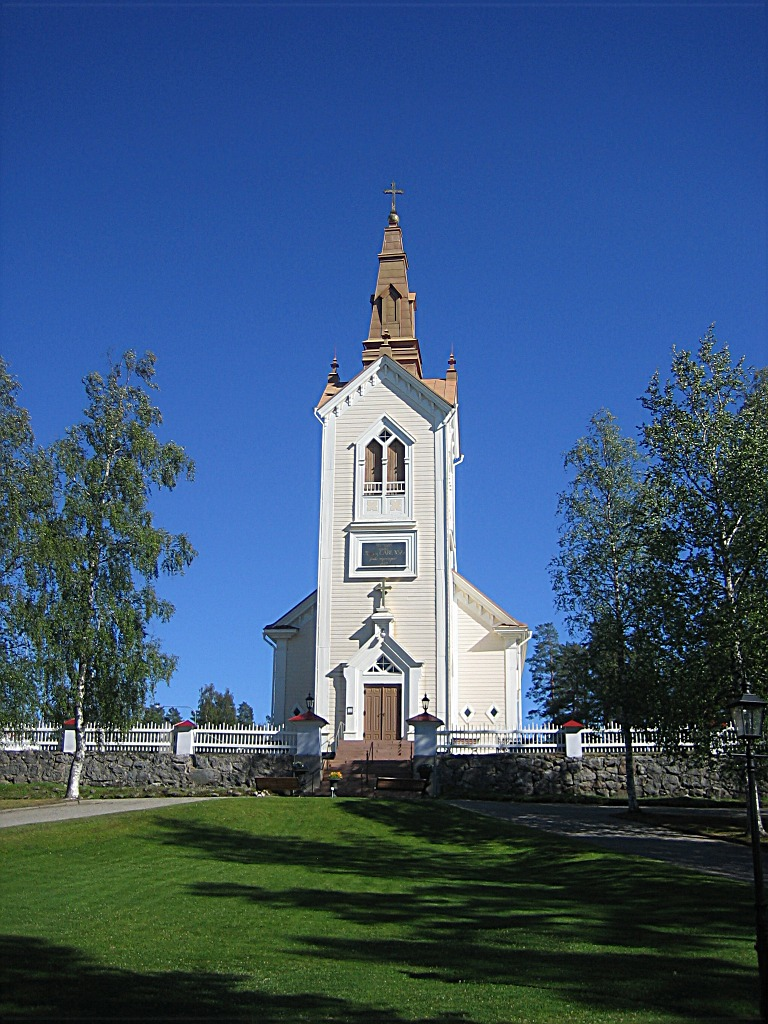 Bräcke church